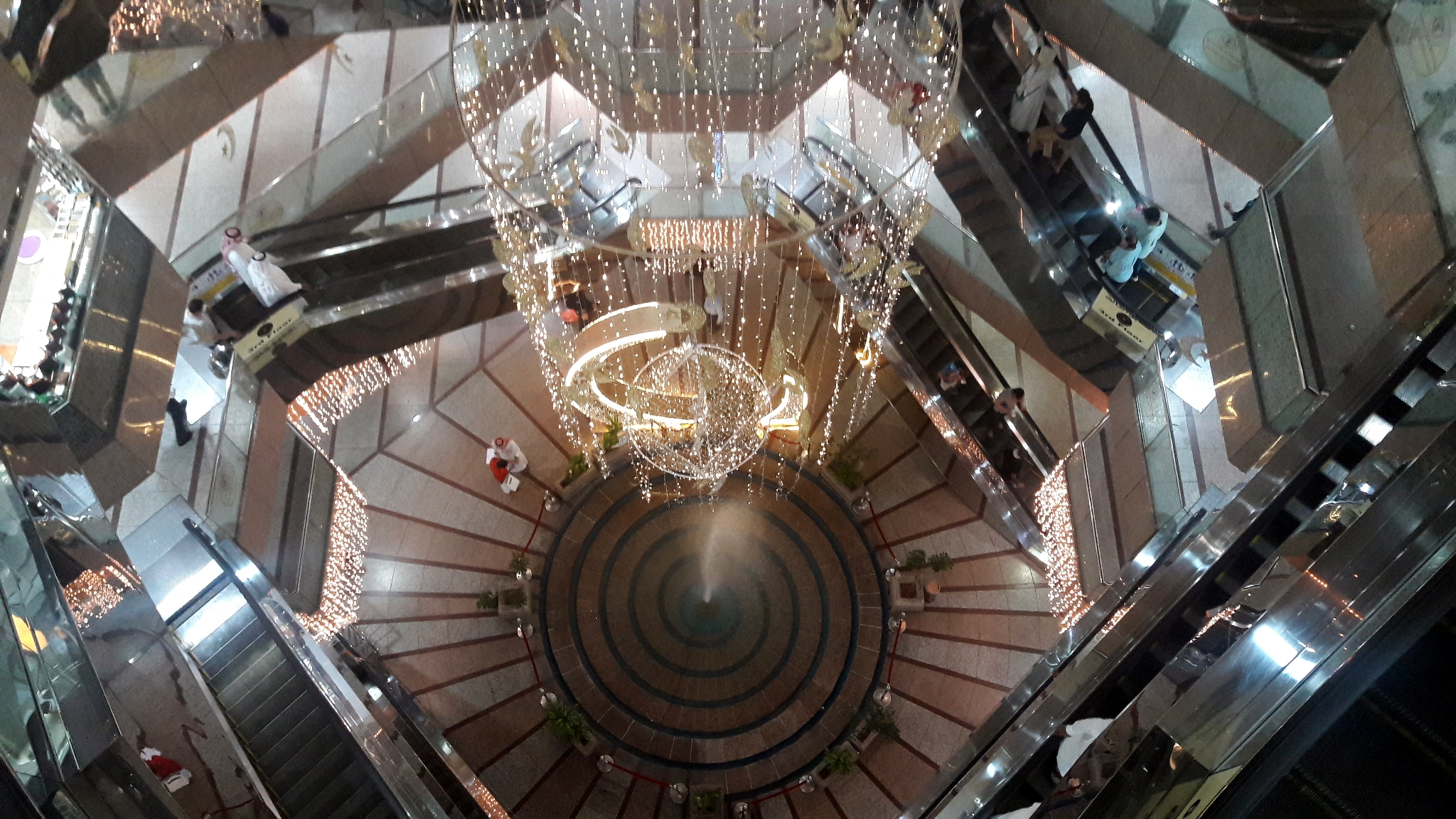 Al-Mahmal Center, Jeddah